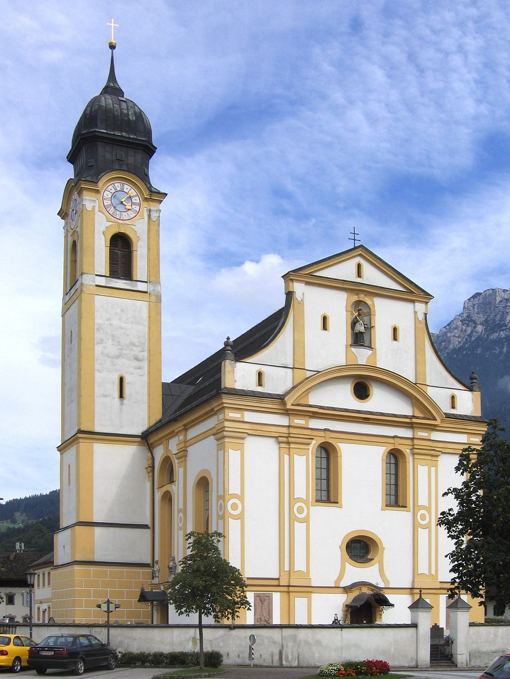 Ebbs, Parish Church of the Assumption. Exterior view from north west (Kirchenplatz).